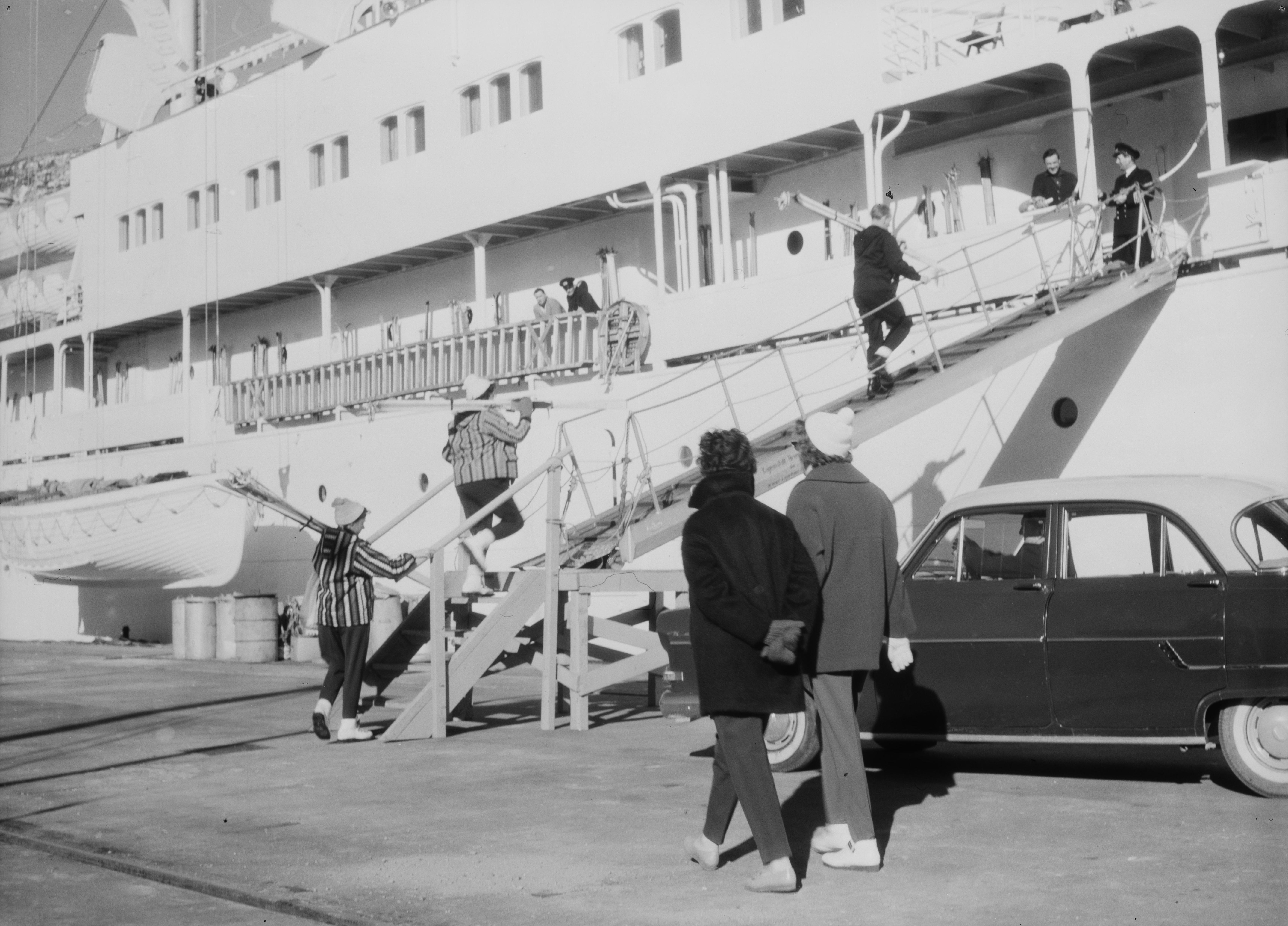 SS Seven Seas docked in Åndalsnes, Norway, circa in 1960.USS Long Island (CVE-1) was sold to Zidell Ship Dismantling Company of Portland, Oregon on 24 April 1947 for scrapping. However, on 12 March 1948, she was acquired by the Canada-Europe Line for conversion to merchant service. Upon completion of conversion in 1949, she was renamed Nelly, and served as an immigrant carrier between Europe and Canada. In 1953, she was renamed Seven Seas.